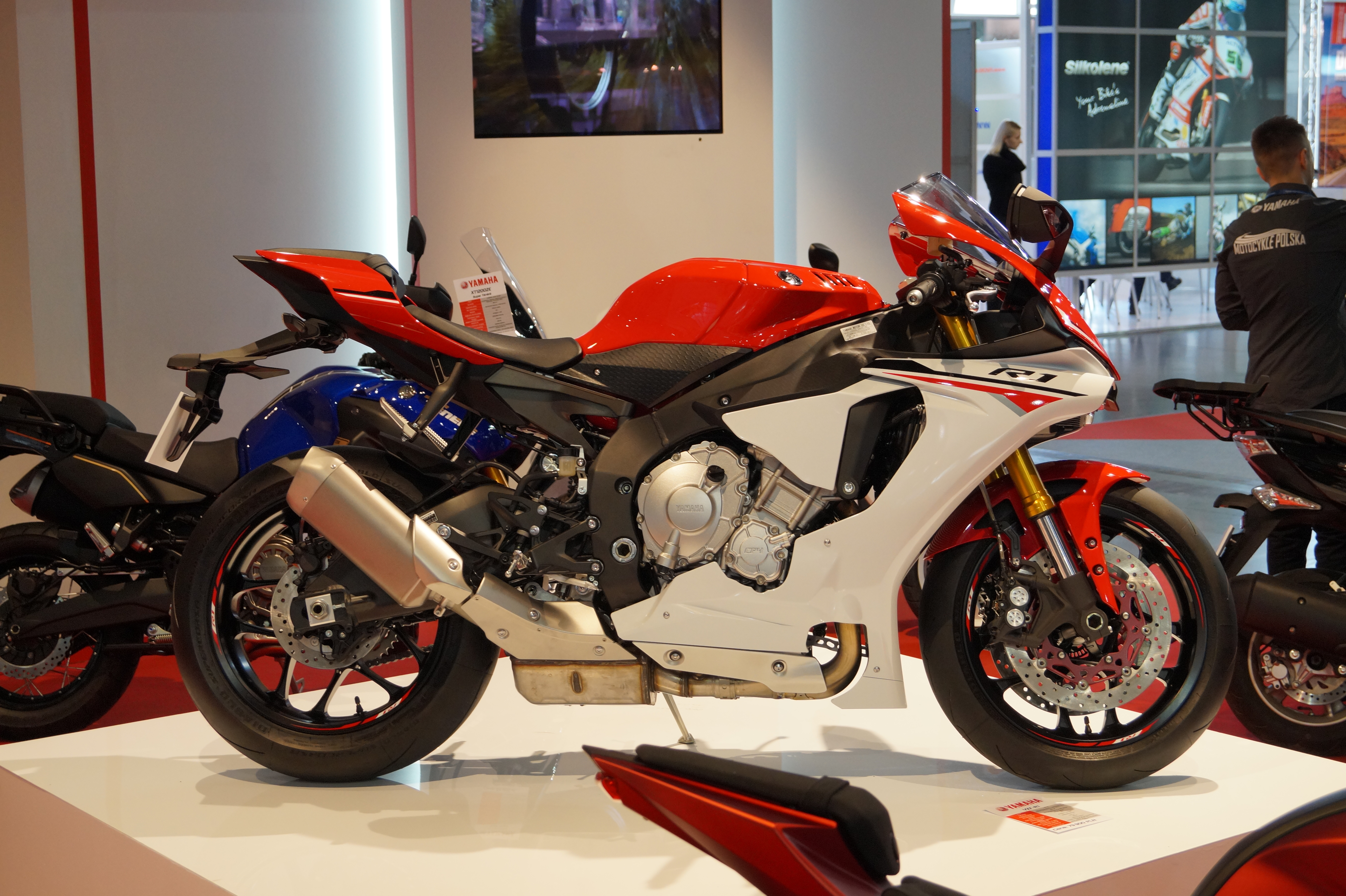 The making of this document was supported by Wikimedia Polska Association, within Wikigrant no. WG 2015-19. Yamaha YZF-R1 na Motor Show Poznań 2015